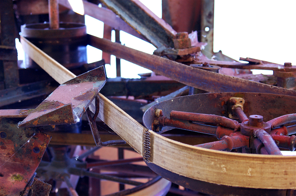 A kinetic sculpture entitled Heureka by Jean Tinguely on the shore of Lake Zurich. The sculpture is as much an auditory event as it is visual, with all the rusted whirrings of the gears, belts, wheels, and pulleys. I found a video (alas, no sound) on YouTube, which conveys some of the effect. Watch the video all the way to the end, the last few seconds convey the scale of the machine. It was interesting trying to photograph the sculpture, because there is so much going on. I decided to take a few shots of the gears I like the most. I found it impossible to take a picture of the entire machine that captured enough of the details that made it interesting. Just now I browsed around Flickr to see if I could find a macro view of the sculpture I liked, and I like this one